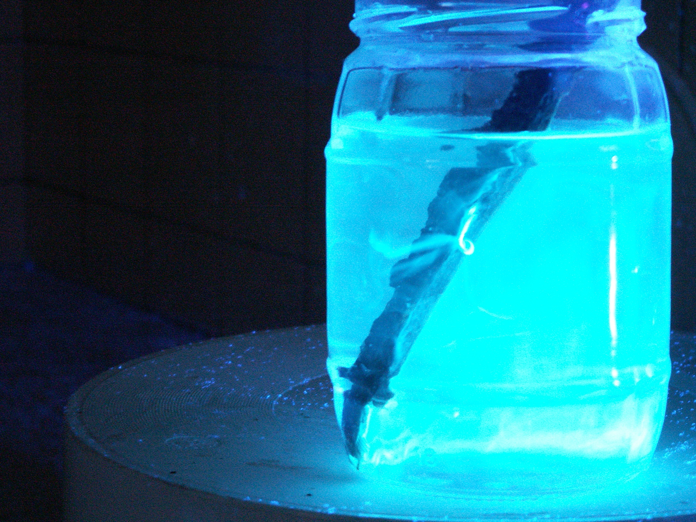 Fluorescence of Aesculin